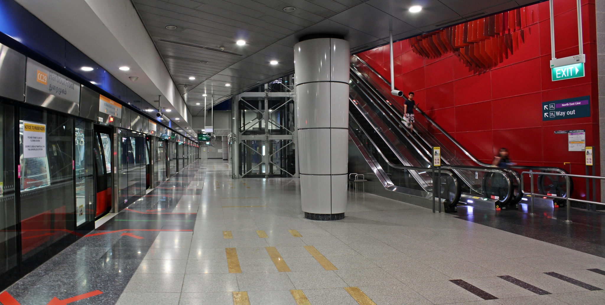 Circle Line platforms of Harbourfront station.